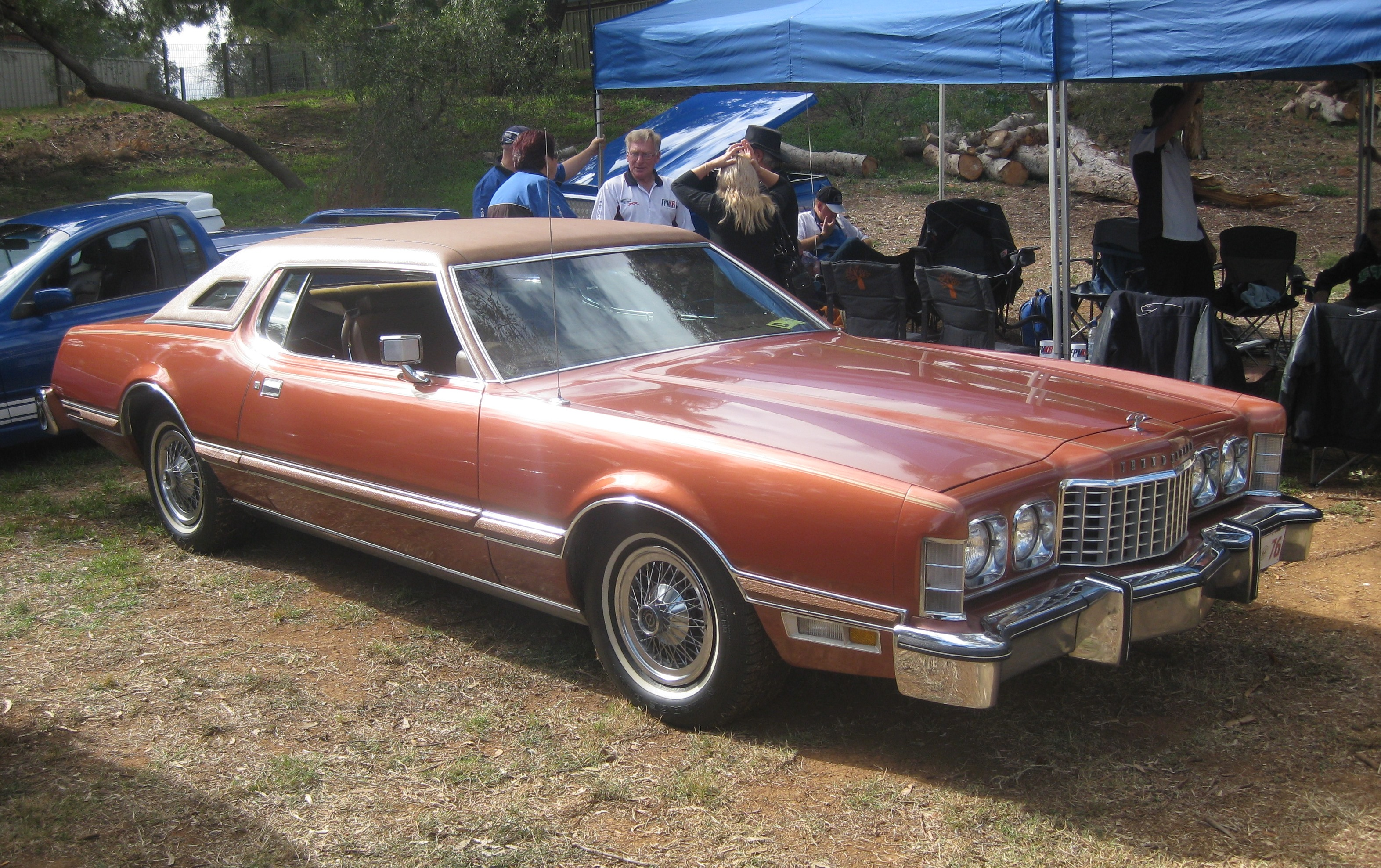 1976 Ford Thunderbird 2-Door Hardtop